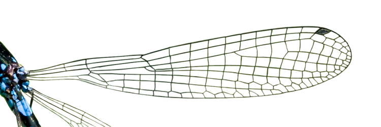 Front wing of a Coenagrionidae, here a Variable Damselfly (Coenagrion pulchellum). Front and rear wings are, as with all damselflies, more or less the same. In contrast to the wings of dragonflies (Anisoptera) and demoiselles (Calopterygidae) the wing structure is less complex. The Pterostigma is small, the wings are petiolate, there are only two antenodals in front of the nodus. The image was digitally processed.